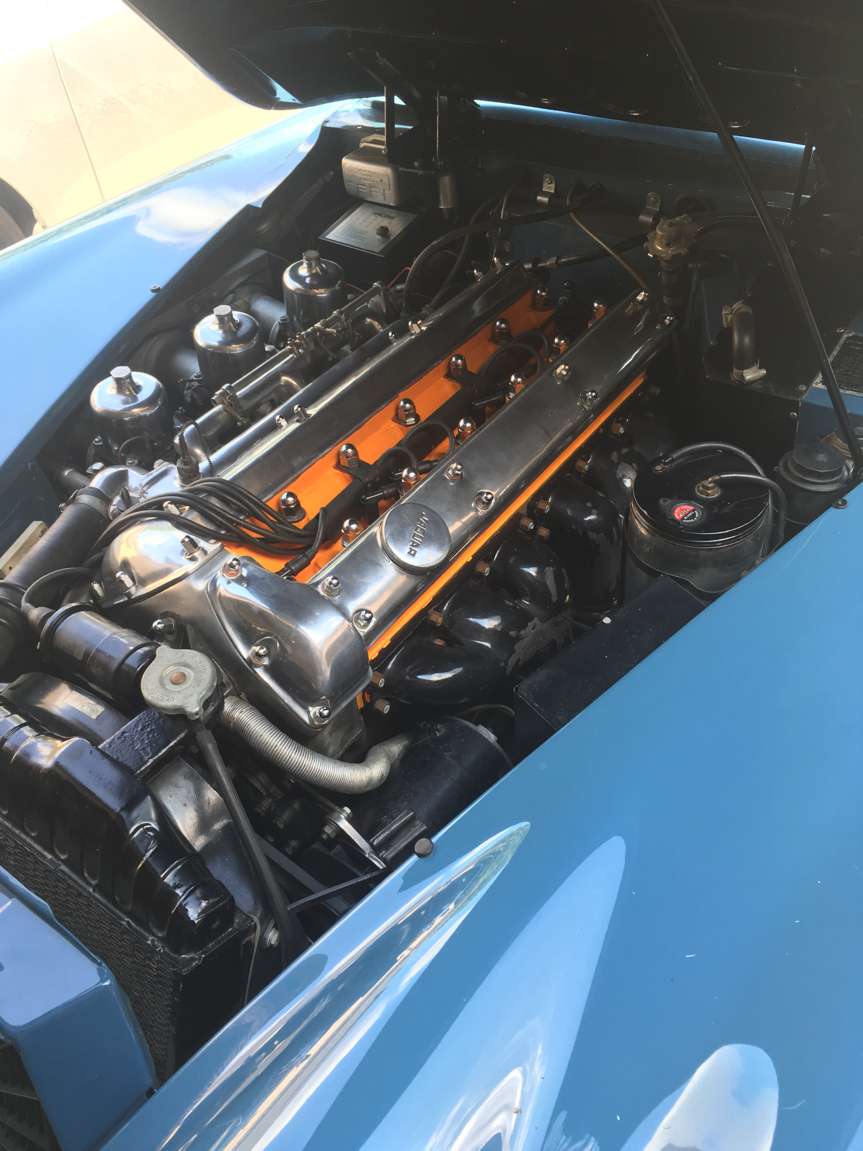 This is in a 1959 XK150 S 3.4 Roadster, Cotswold Blue with a Pumpkin Orange head.